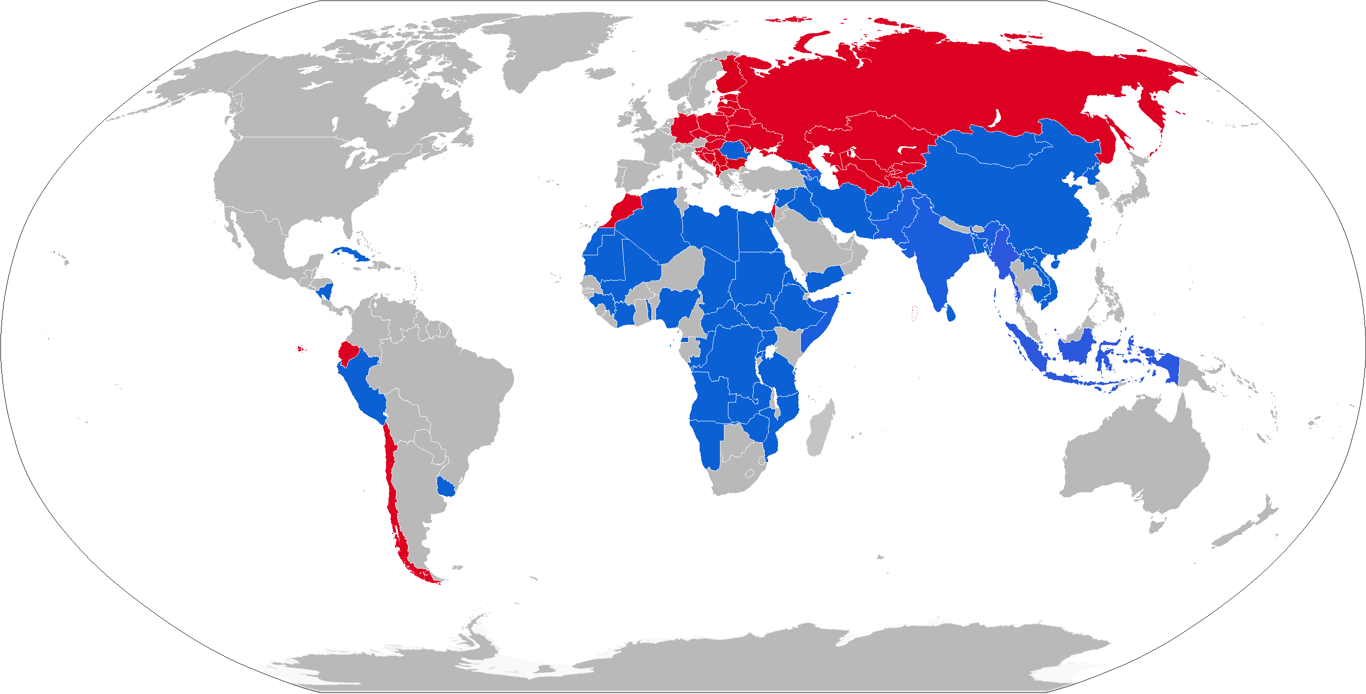 Map of T-54 and T-55 operators.